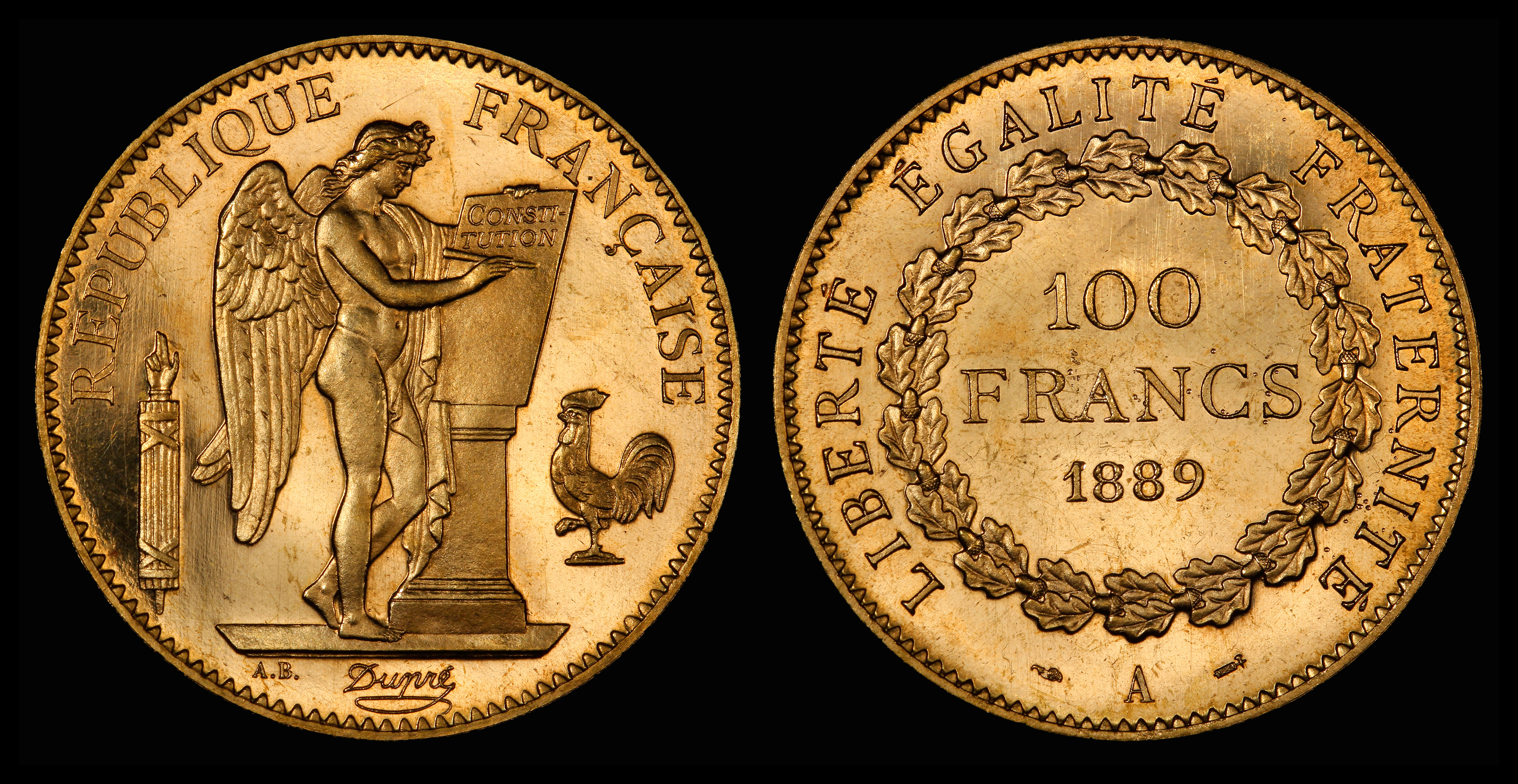 Republic of France (Paris Mint), 100 francs, gold (1889). "Winged genius" designed by Augustin Dupré is on the obverse. The total mintage for this design in 1889 was only 100 proof coins. 32,25 g. diam. 35 mm. Engraver Désiré-Albert Barre after Augustin Dupré